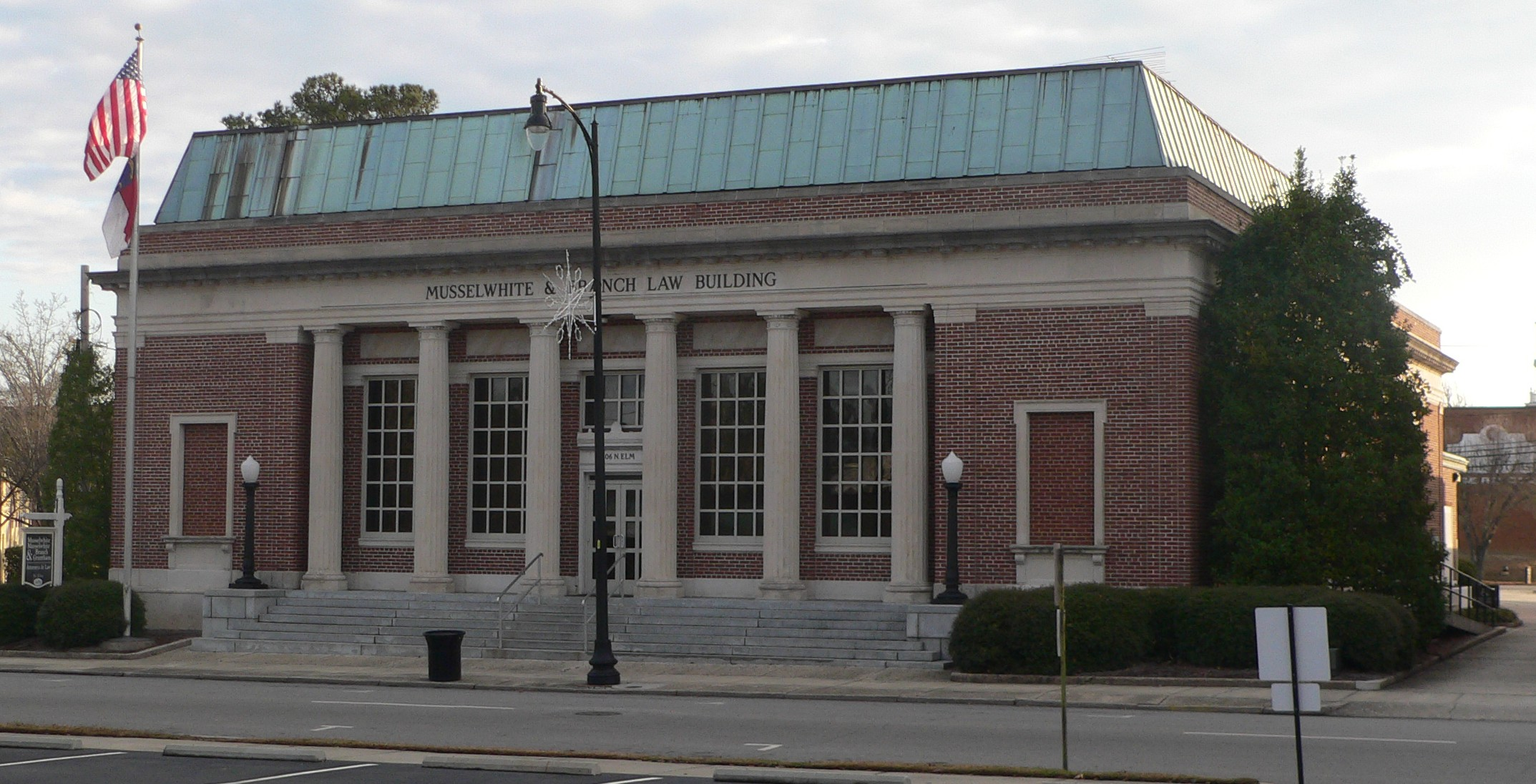 Former post office building, located at 606 N. Elm Street in Lumberton, North Carolina; seen from the southwest.